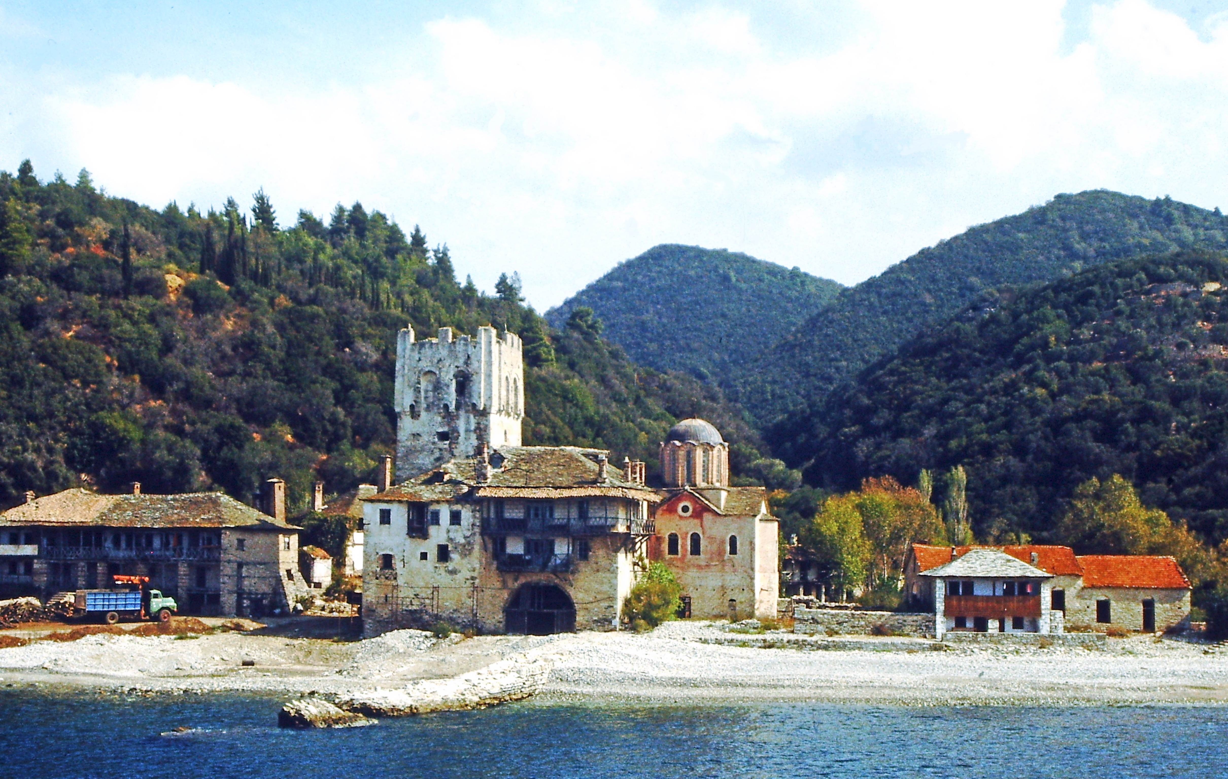 The arsanas of the monastery of Zografou